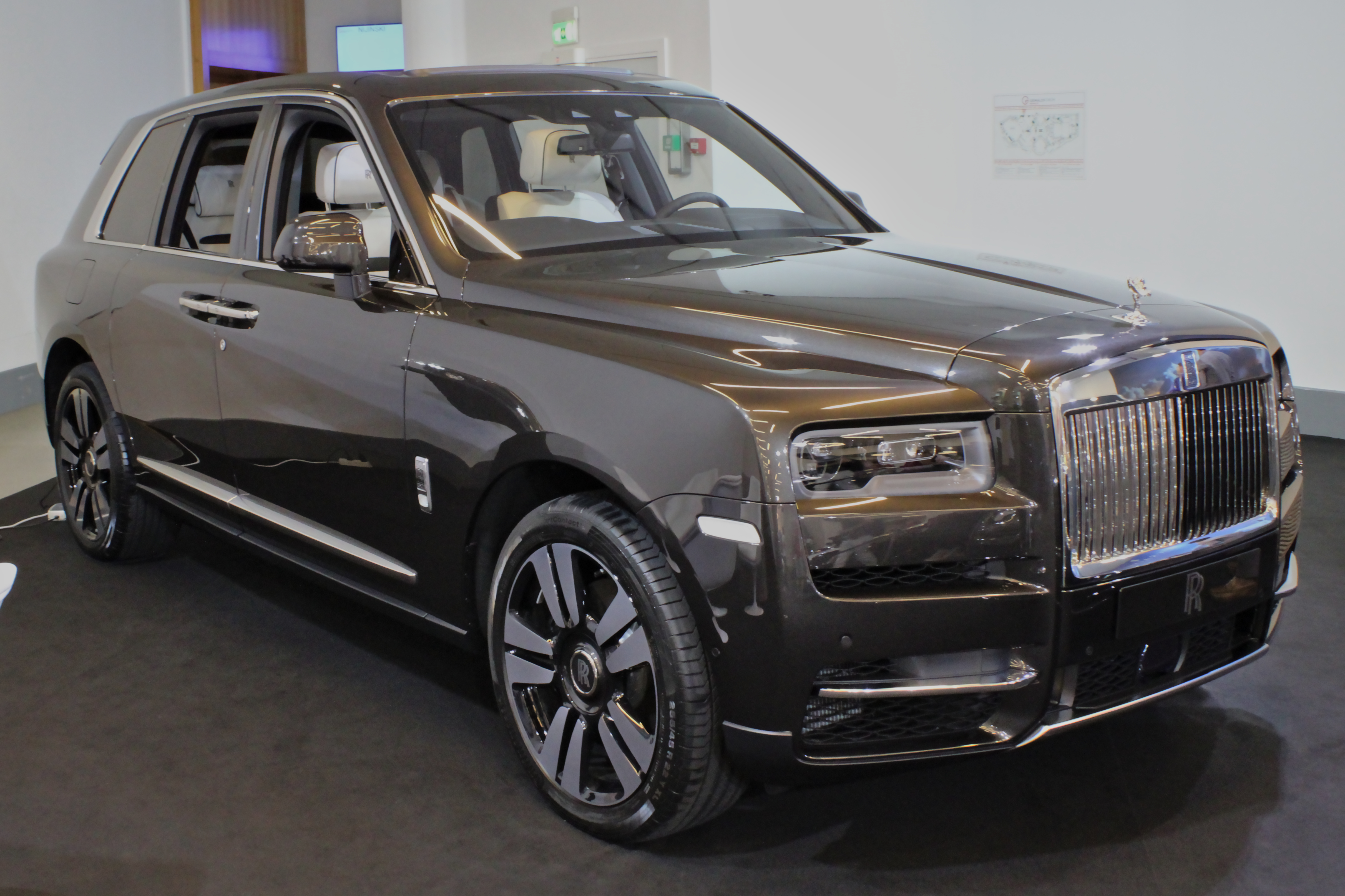 Rolls-Royce Cullinan at Top Marques 2019